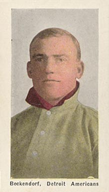 M116 Sporting Life baseball card for Heinie Beckendorf